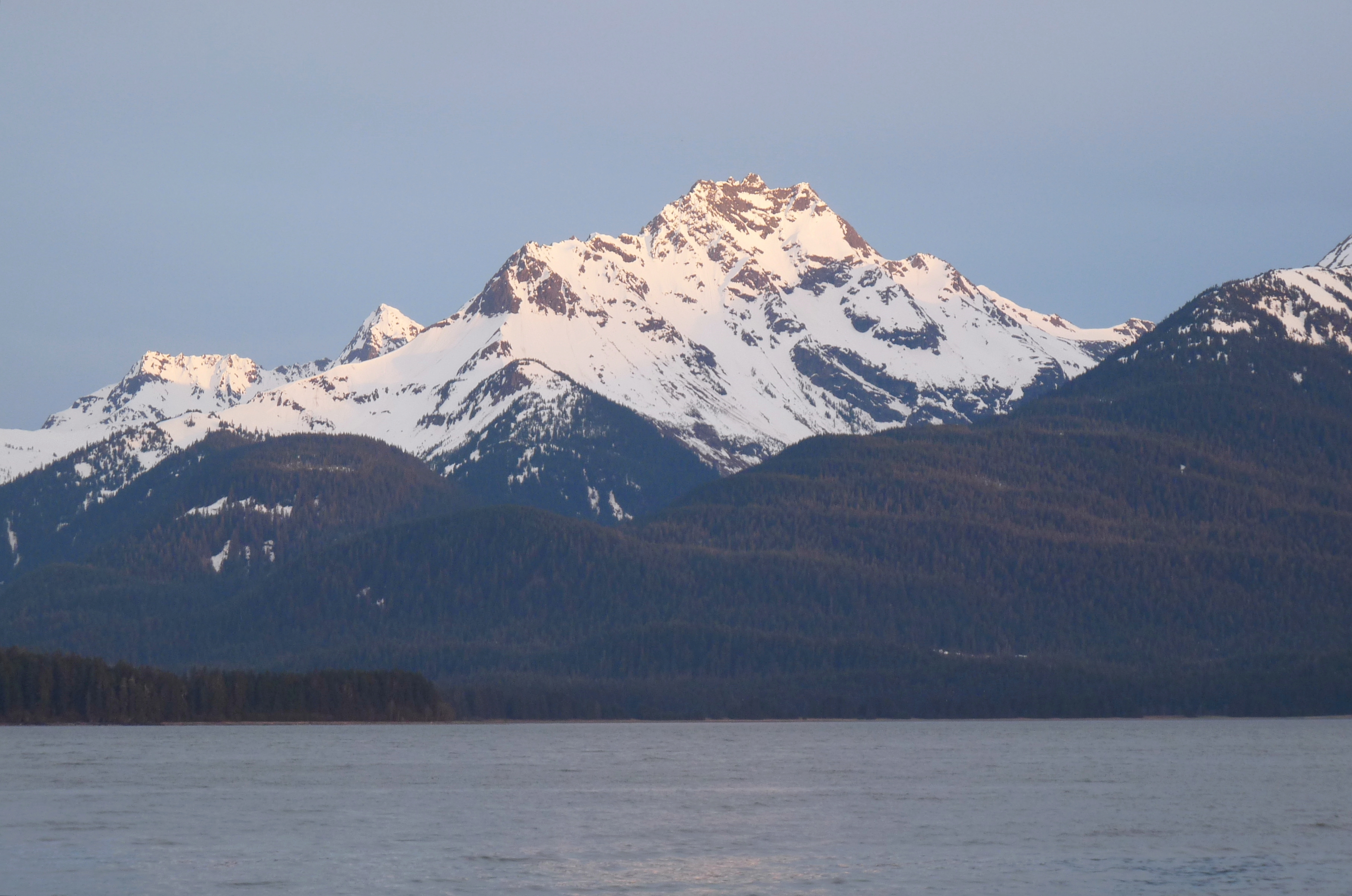 Eagle Peak, the tallest point on Admiralty Island at 4,650 feet.